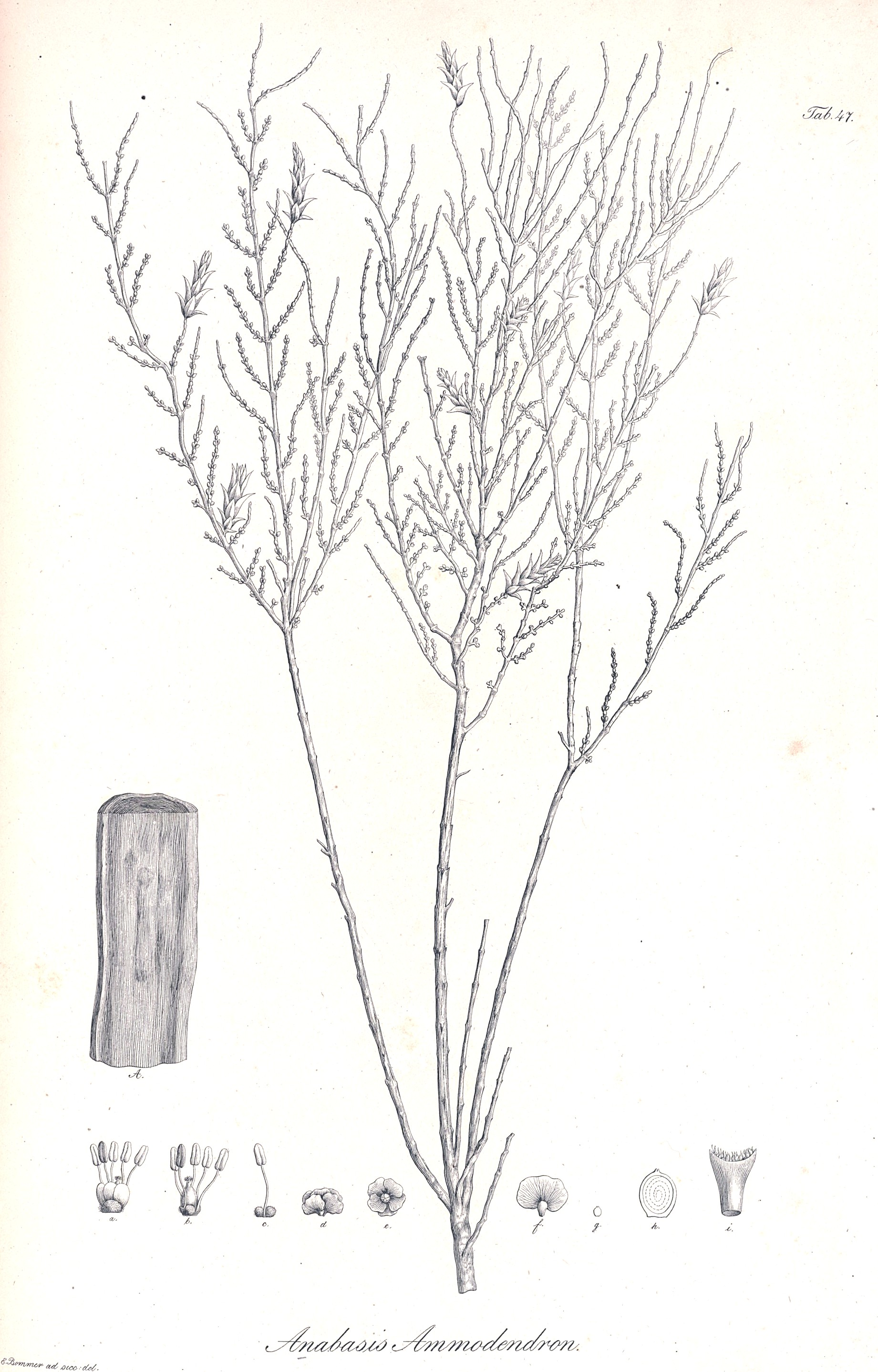 Anabasis ammodendron C.A.Mey. = Haloxylon ammodendron (C.A.Mey.) Bunge, Illustration from: Ledebour, C.F.v. 1829. Icones plantarum novarum vel imperfecte cognitarum floram Rossicam, imprimis Altaicam, illustrantes 1: tab. 47.